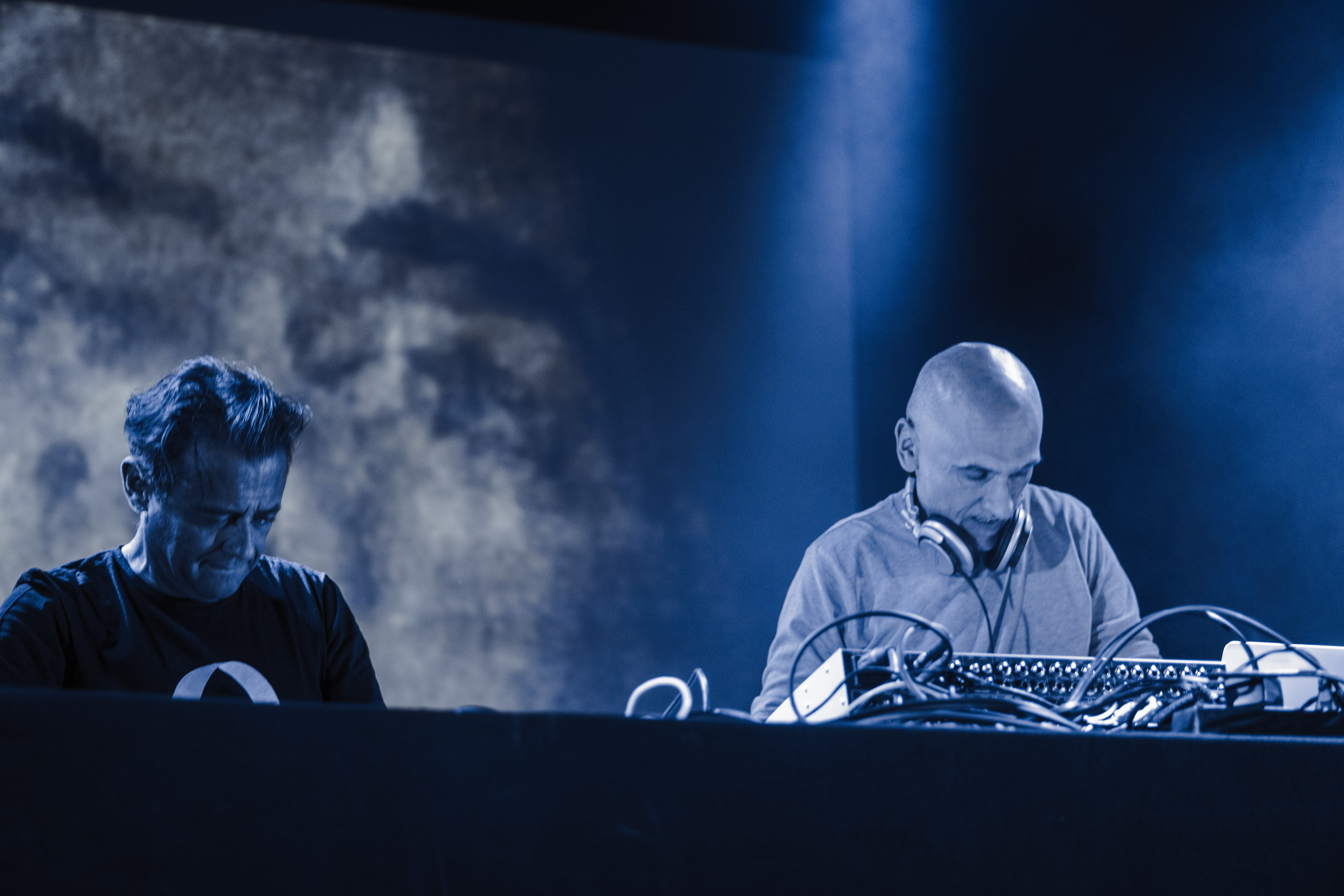 WGT 2016